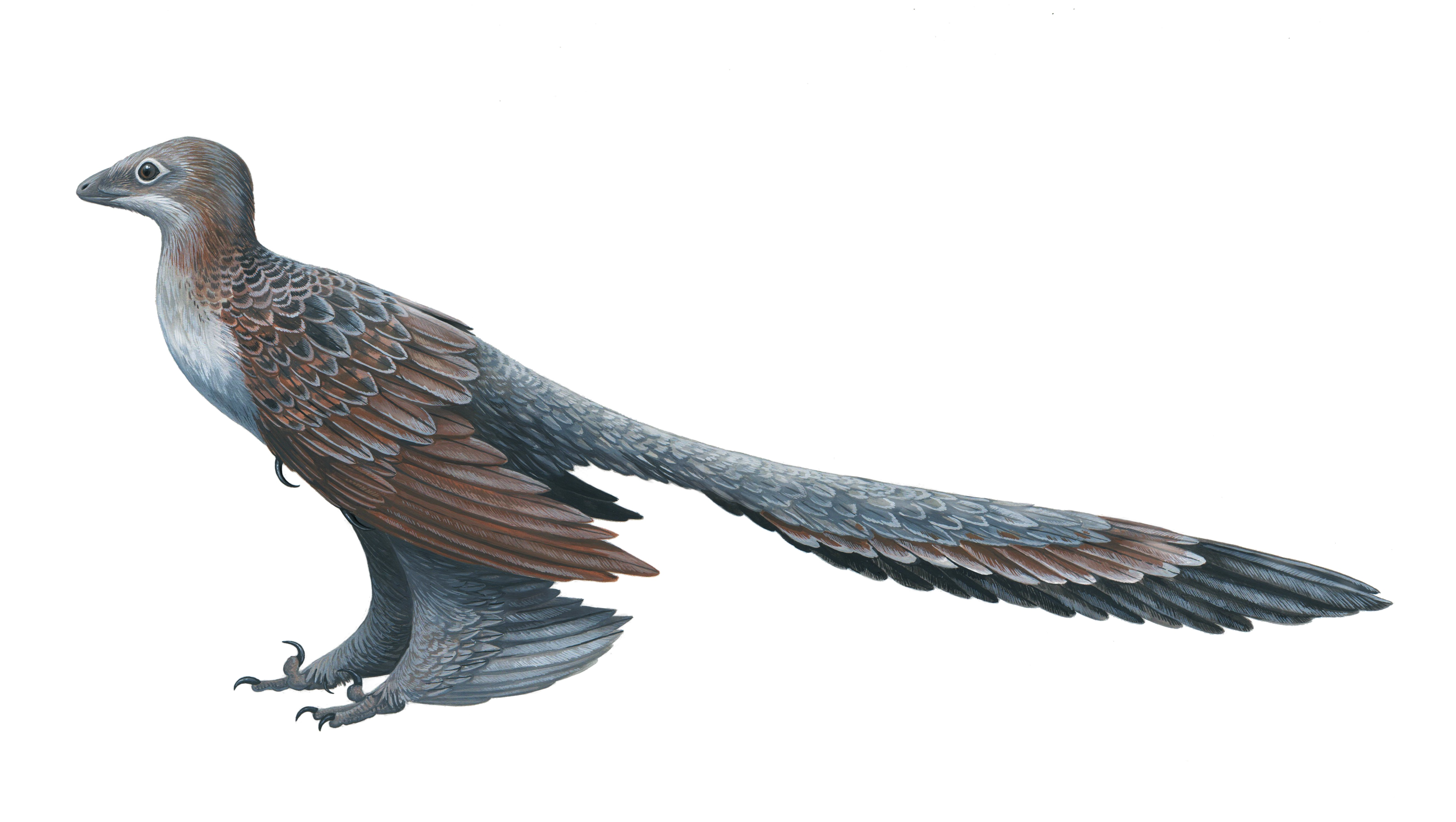 Reconstruction of the 2014 microraptorine dromaeosaur dinosaur, Changyuraptor yangi.